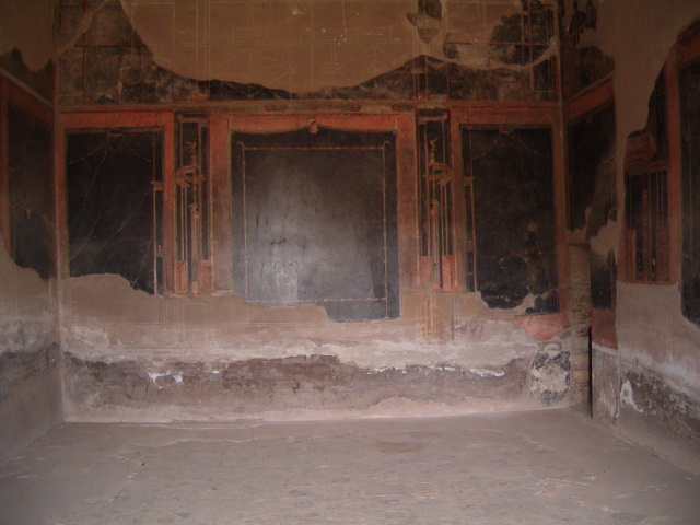 Small theatre, Pompei